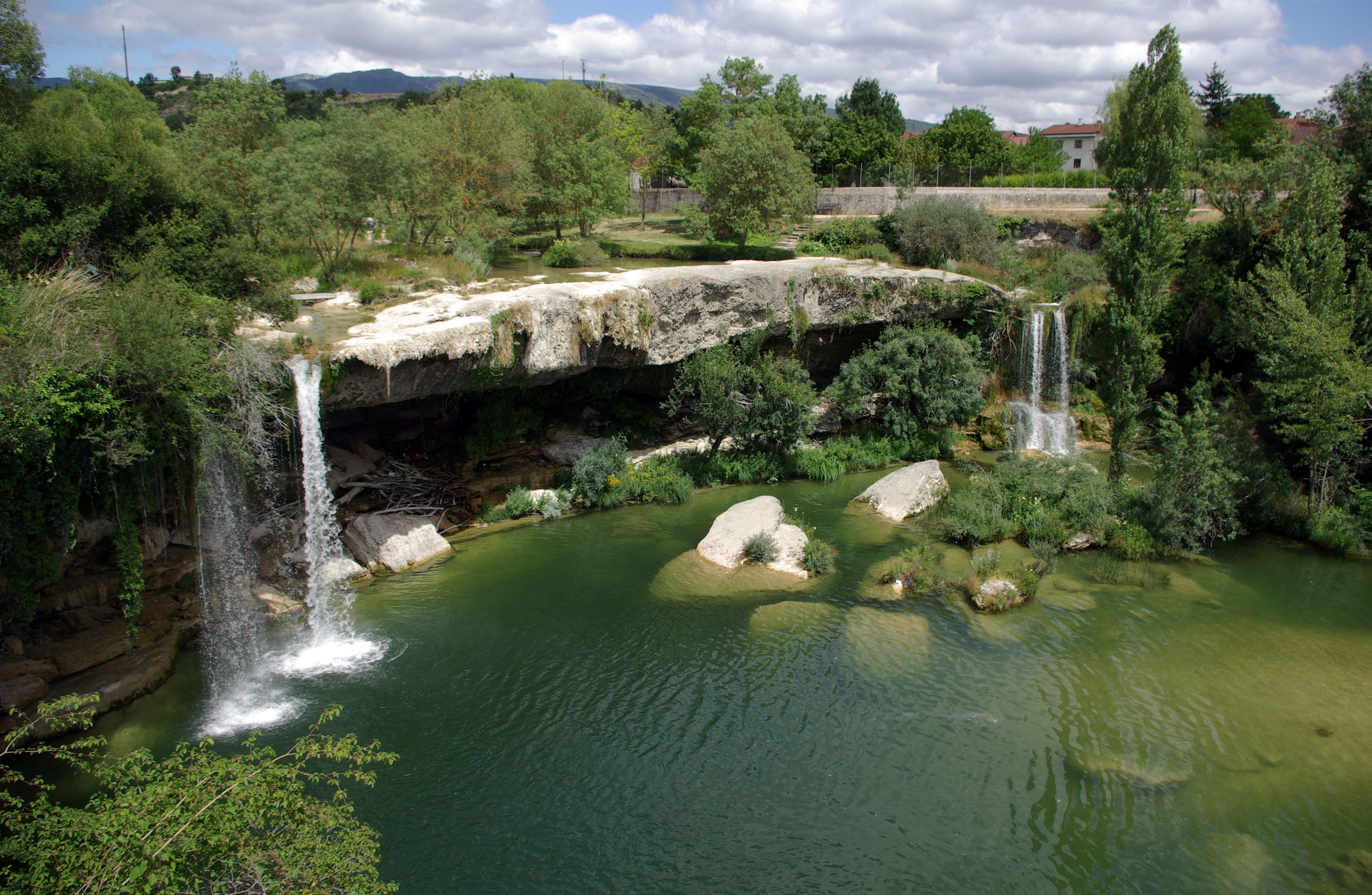 Jerea Falls in Valle de Tobalina, Burgos (Spain)